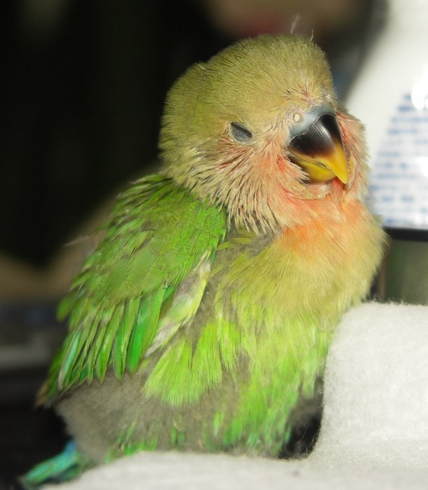 Rosy-faced Lovebird / コザクラインコ雛